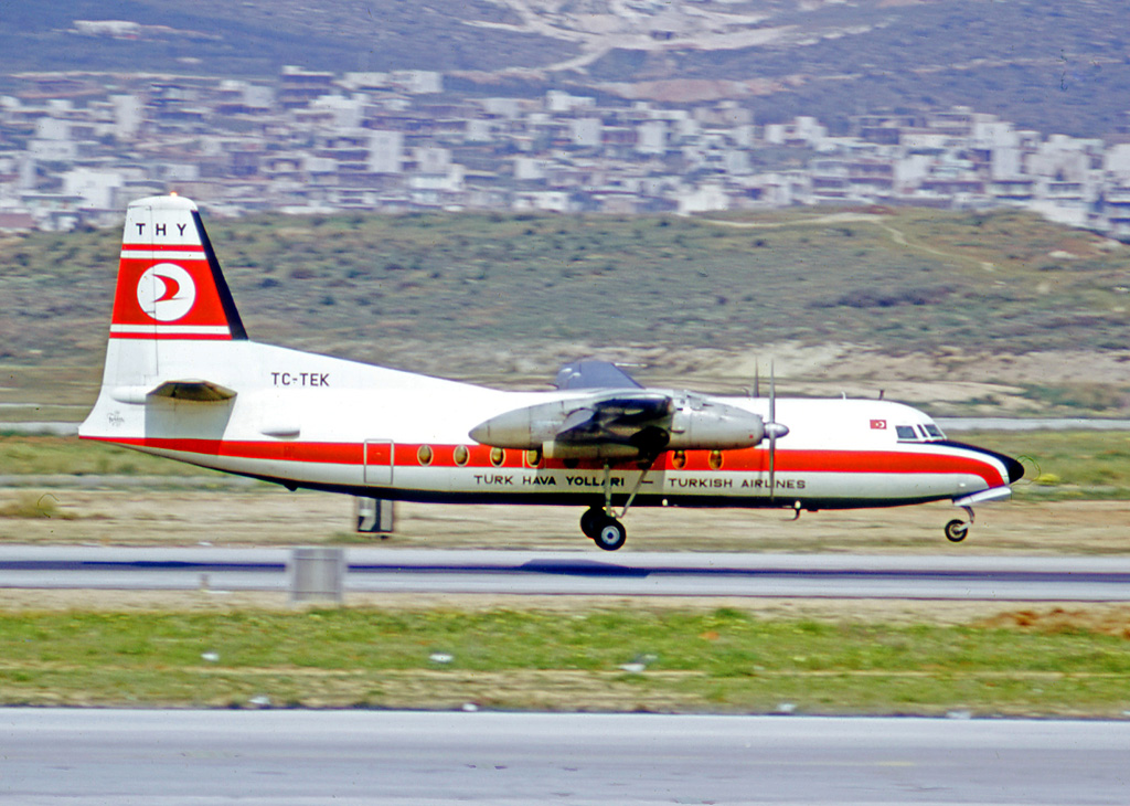 Fokker F.27 Friendship 100 TC-TEK of THY Turkish Airlines at Athens Hellenikon Airport in 1973